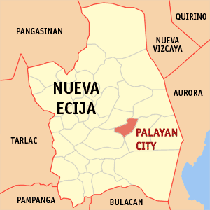 Map of Nueva Ecija showing the location of Palayan